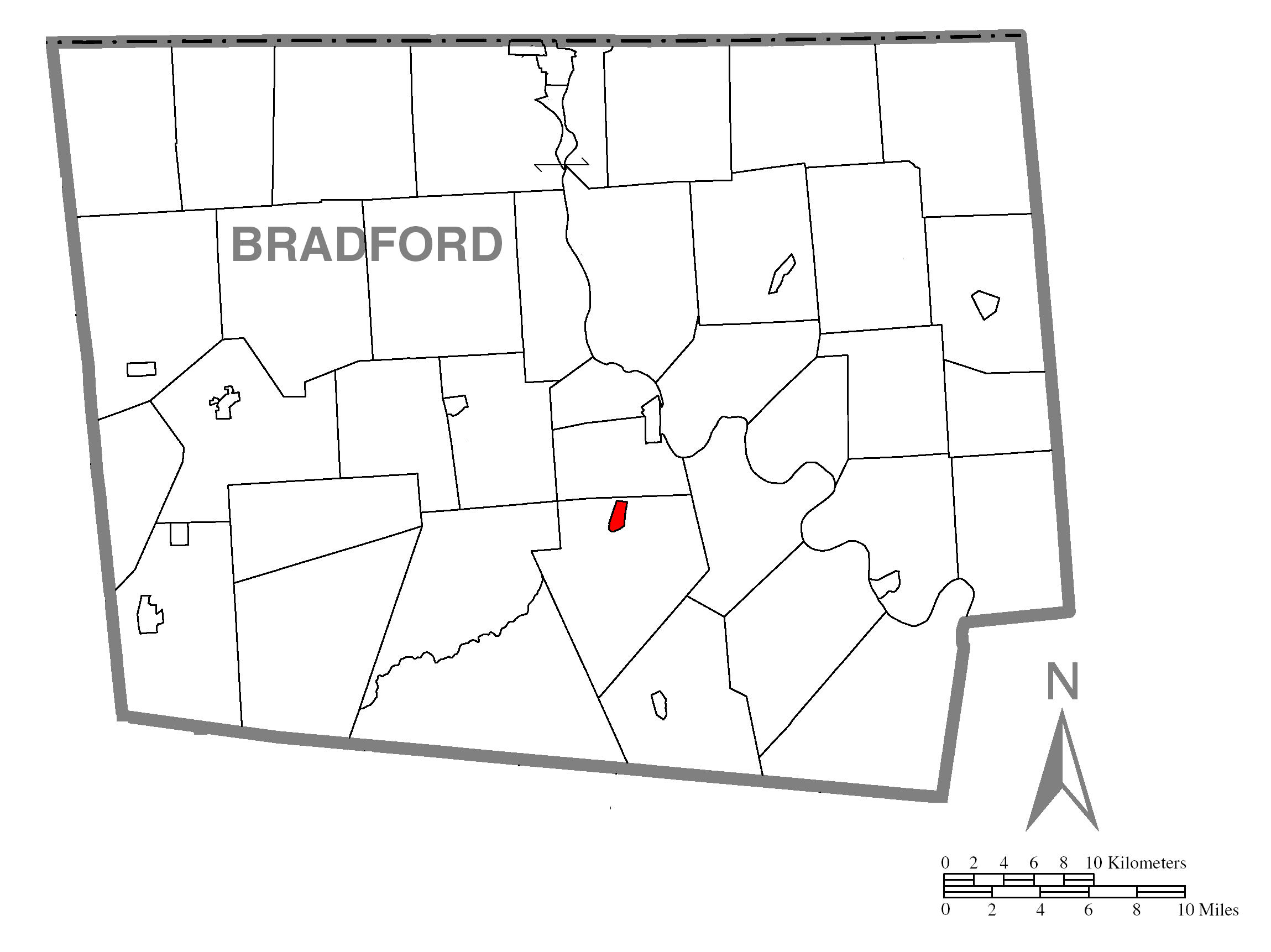 A map of Bradford County showing Monroe, Pennsylvania (alternate) highlighted on the map.